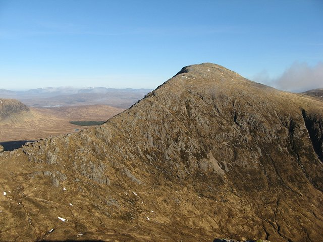 Stob a' Choire Odhair Looking quite isolated, seen from Aonach Eagach. Usually visited with Stob Ghabhar, it is a very good hill on its own for an easier day.